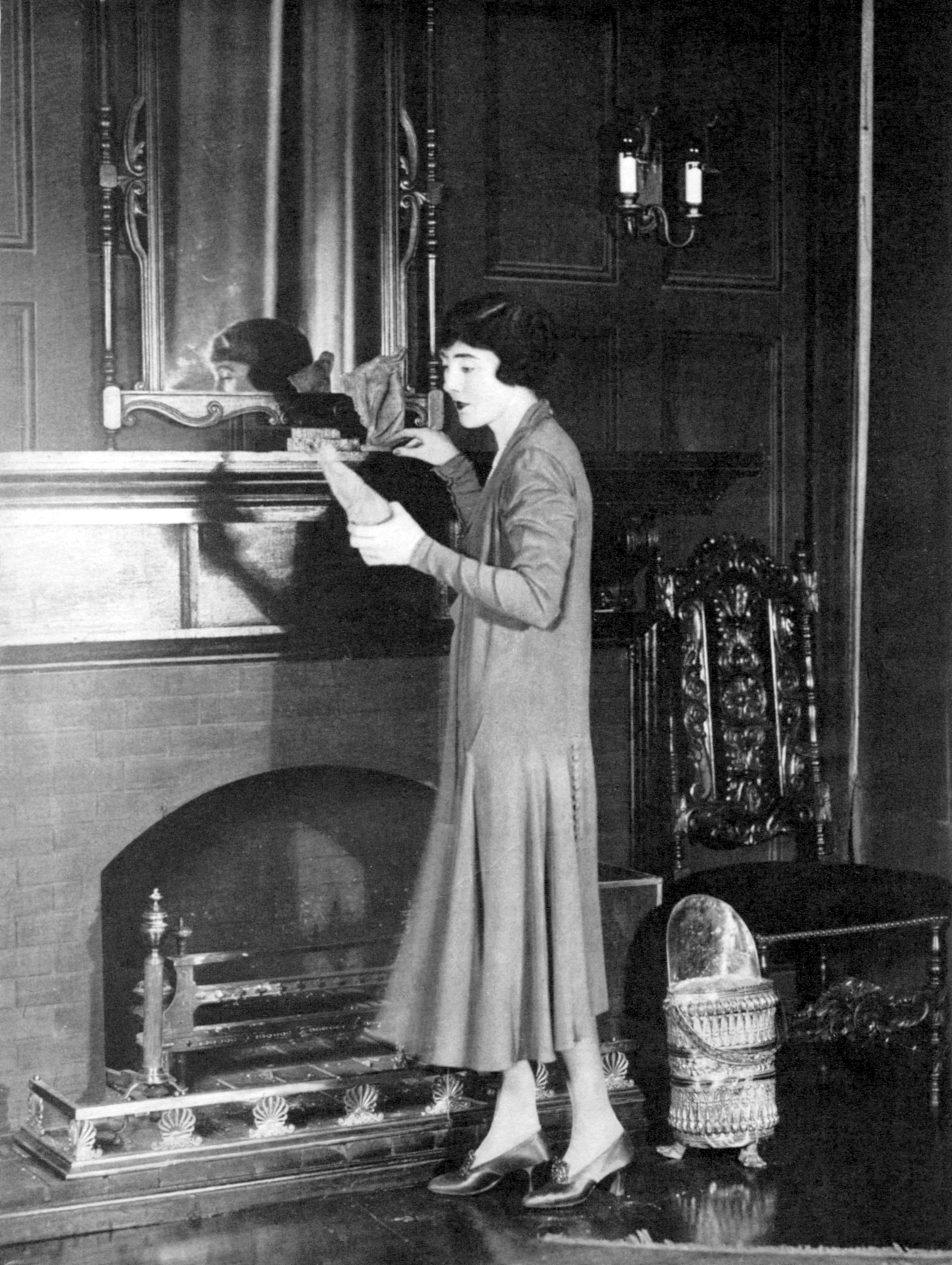 Photograph of Chrystal Herne starring in the original Broadway production of Craig's Wife Caption reads as follows: CHRYSTAL HERNE IN 'CRAIG'S WIFE' As the unscrupulous, calculating wife in George Kelly's newest play at the Morosco this talented actress gives one of the most brilliant performances of the season